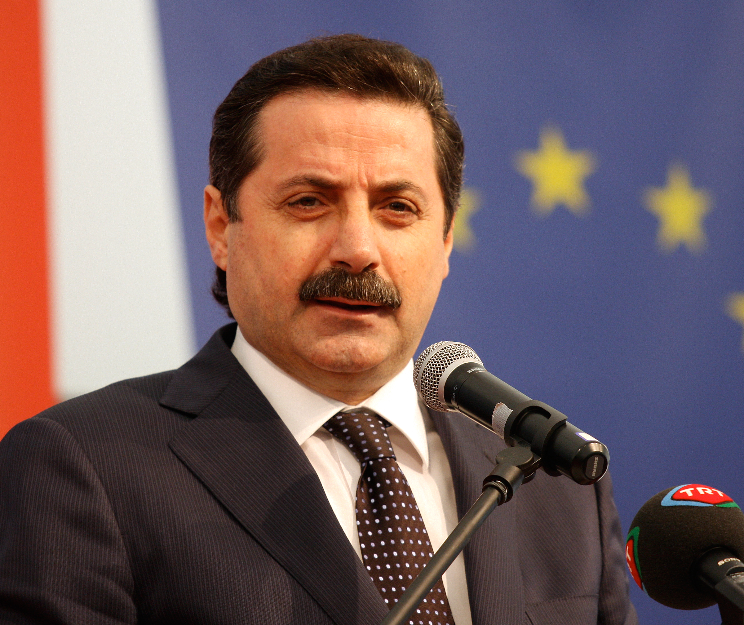 Faruk Çelik, Ministry of State in the cabinet of Turkey